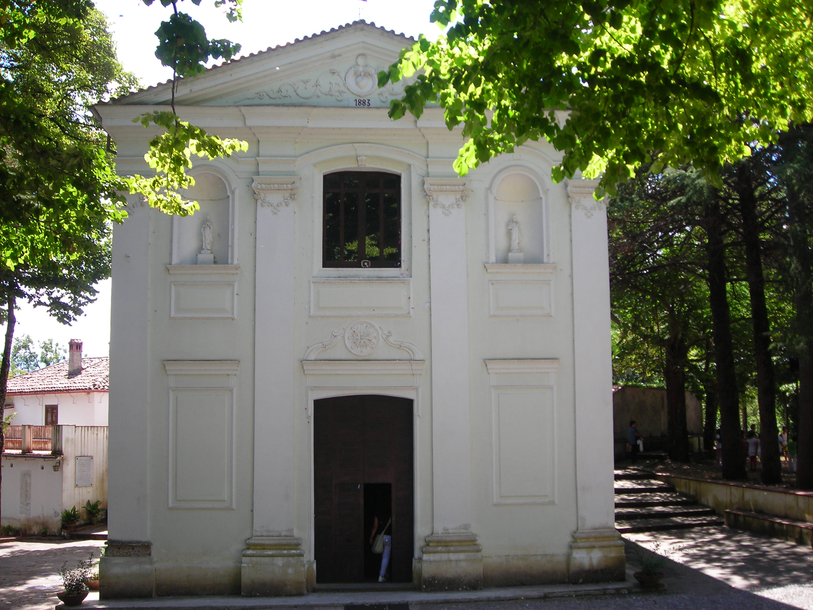 Santuario delle Cappelle